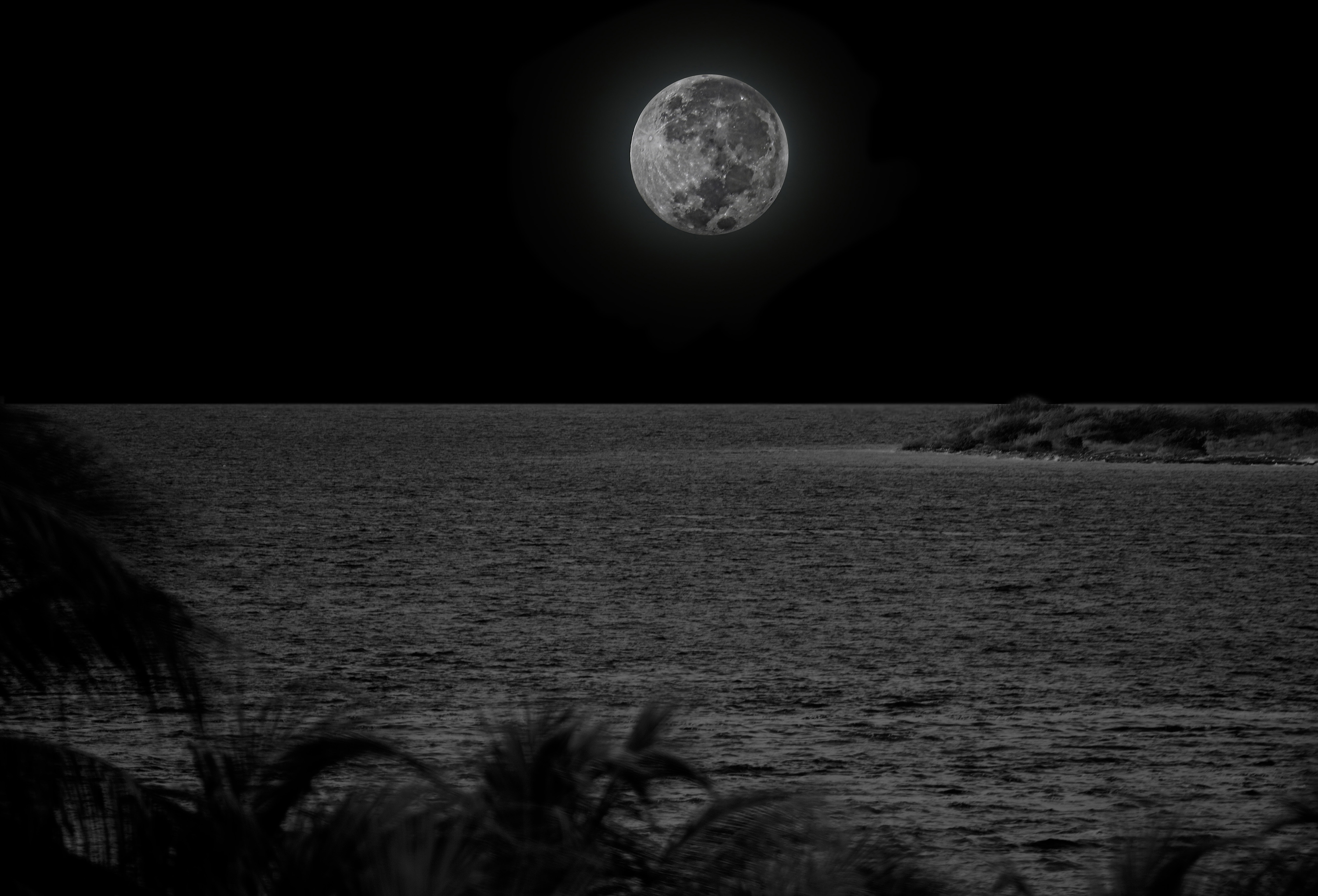 Super moon 11-15-2016